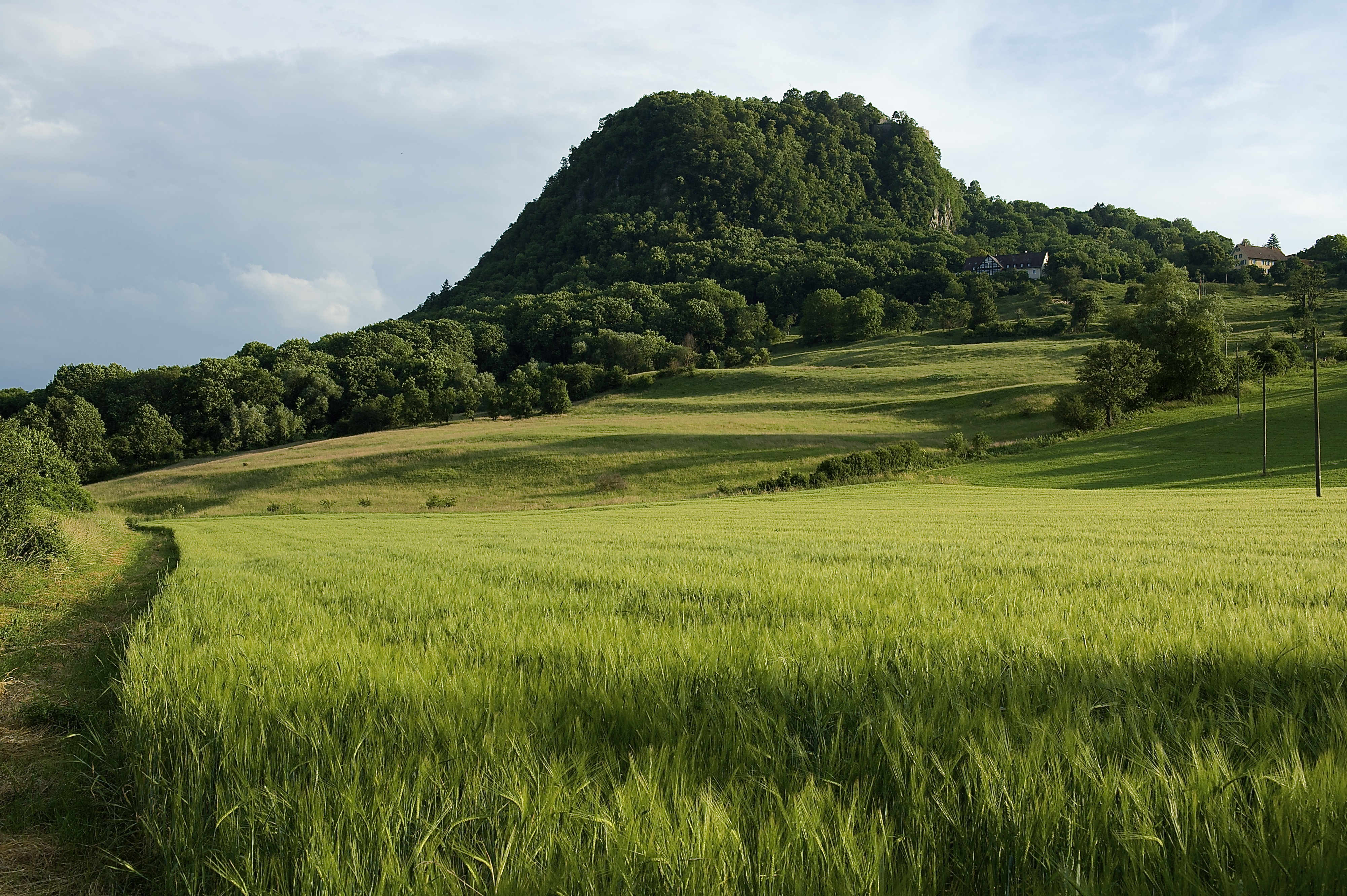 Hohentwiel is a 2.260 ft high mountain in the Hegau region of Baden-Württemberg in southern Germany. It is west of the of Singen and 30 km (19 ml) from Lake Bodensee. At the summit are the ruins of an ancient castle.